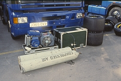 Monza circuit paddock- Formula one breathable high pressure air compressor with protected tanks.